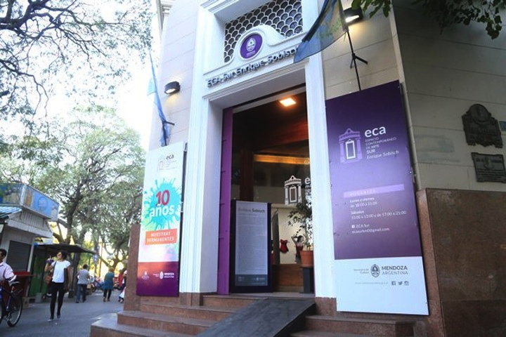 Edificio E.C.A. Sur Enrique Sobisch en San Rafael, Mendoza.